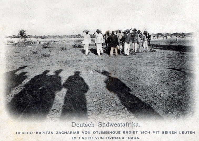 Zacharias Zeraua of Otjimbingwe arises in Owinaua-Naua the Department of Major Ludwig von Estorff